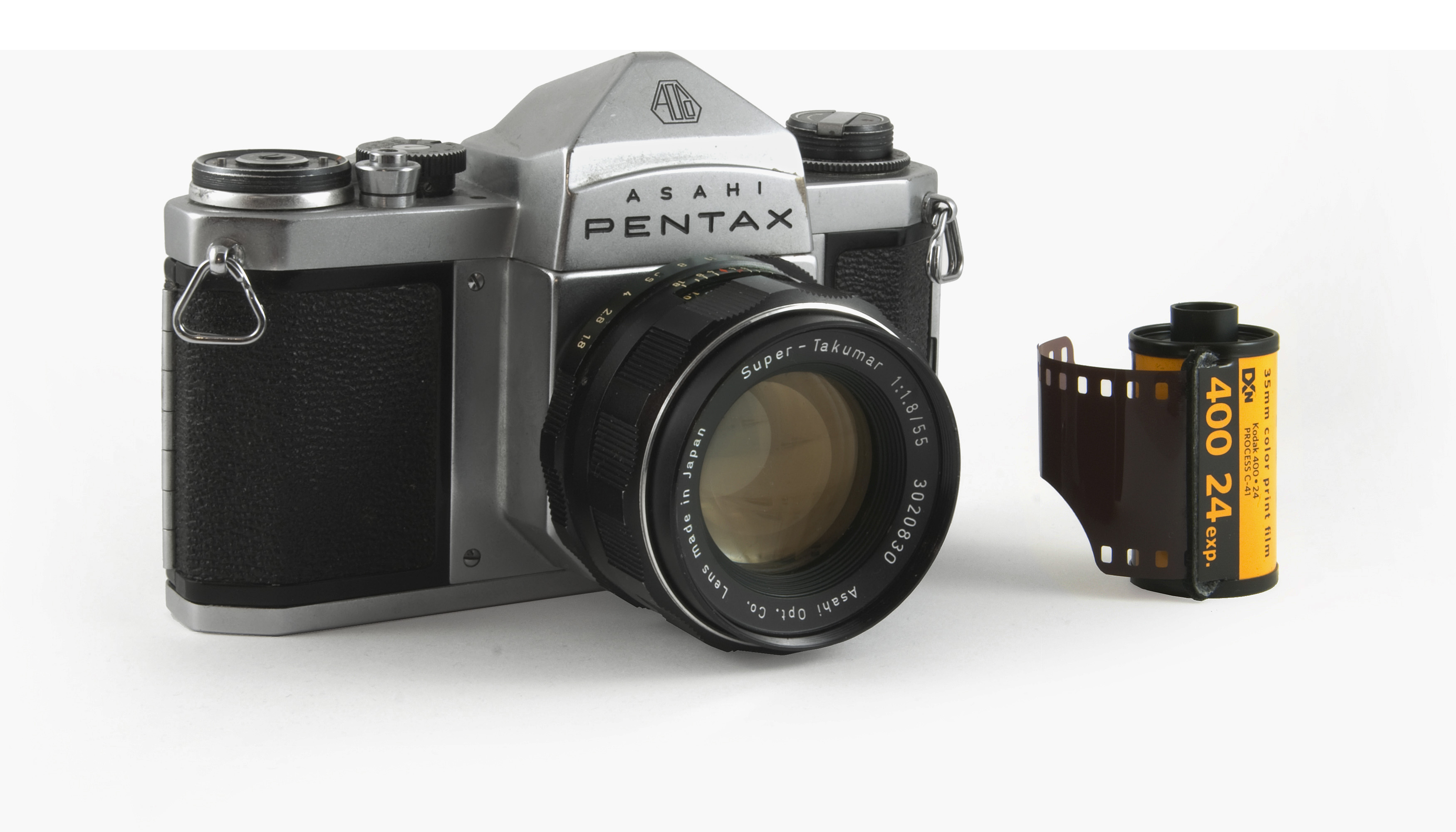 An Asahi Pentax S3 camera with the Super-Takumar 55mm f1.8 lens. 35mm Kodak film added for scale.